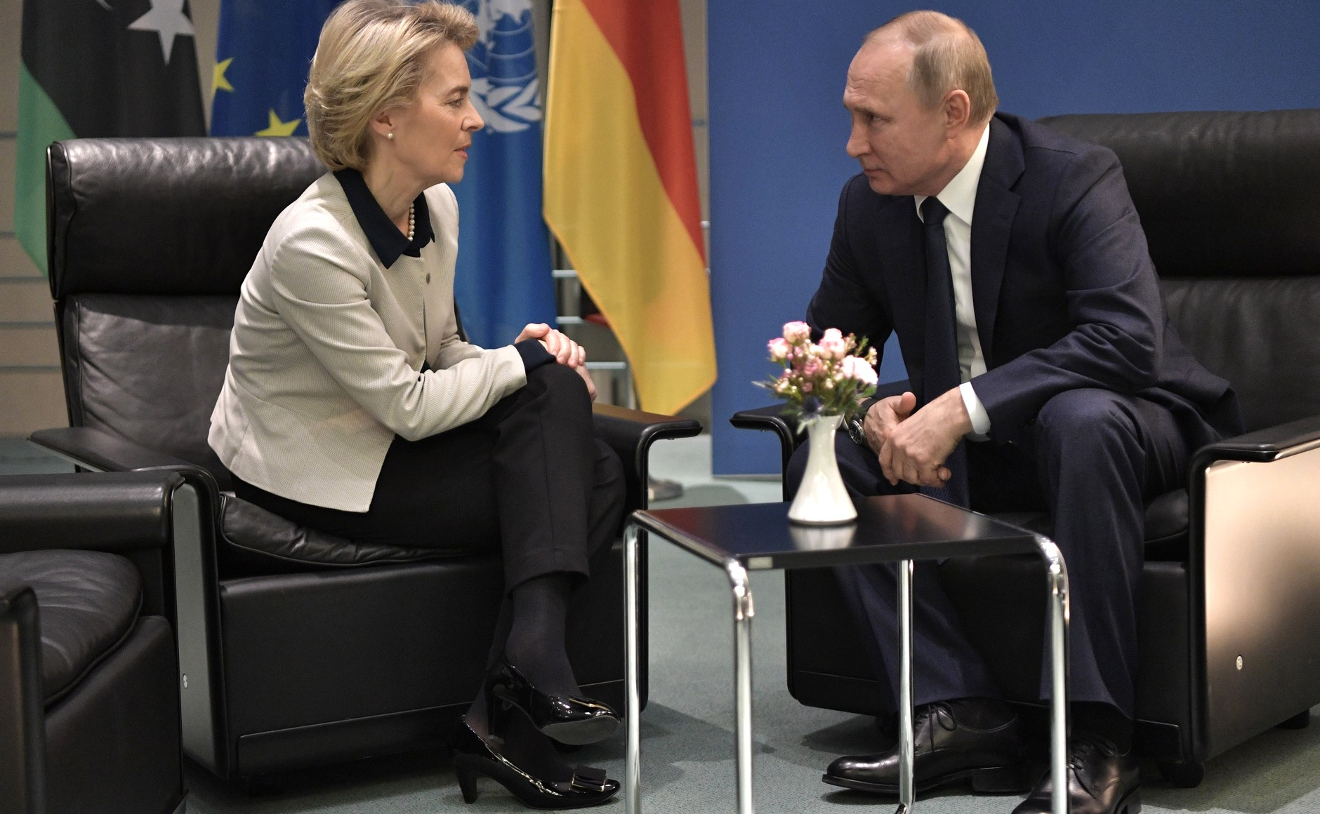 Vladimir Putin and Ursula von der Leyen at the International conference on Libya, 19 January 2020.